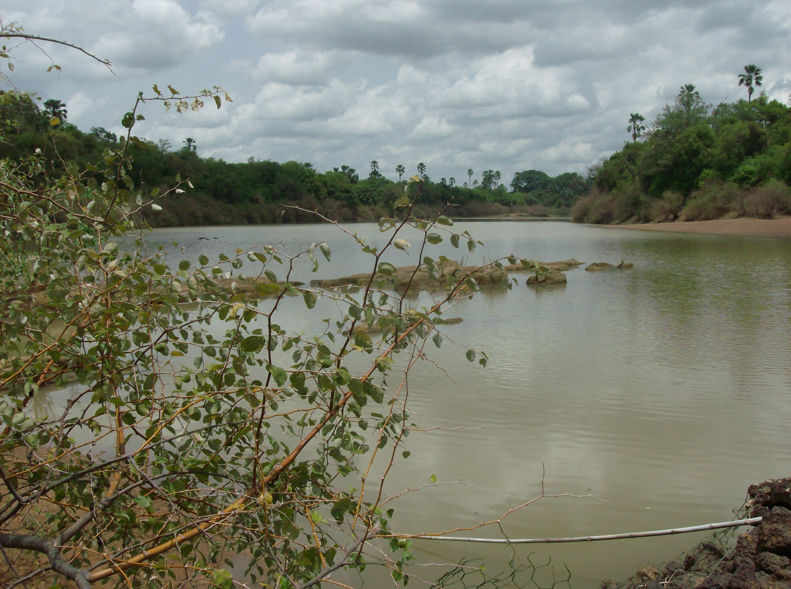 Date of Inscription: 1981 Criteria: (x) Property : 913000.0000 ha Eastern Senegal and Upper Casamance regions N13 4 0.012 W12 43 0.012 Ref: 153 Inscription Year on the List of World Heritage in Danger: 2007 Brief Description [Niokolo-Koba National Park] Located in a well-watered area along the banks of the Gambia river, the gallery forests and savannahs of Niokolo-Koba National Park have a very rich fauna, among them Derby elands (largest of the antelopes), chimpanzees, lions, leopards and a large population of elephants, as well as many birds, reptiles and amphibians.